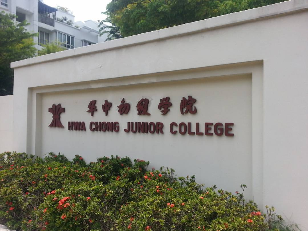 Entrance cornerstone of the former Hwa Chong Junior College, one of the top junior colleges in Singapore. It is currently part of the integrated Hwa Chong Institution.